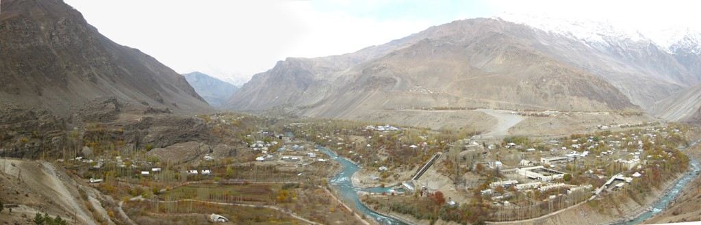 Panorama of Khorugh from East (Botanical Garden of Khorugh) Picture taken by Iftikhor Vatanshoev and stitched by ArcSoft's Panorama Maker